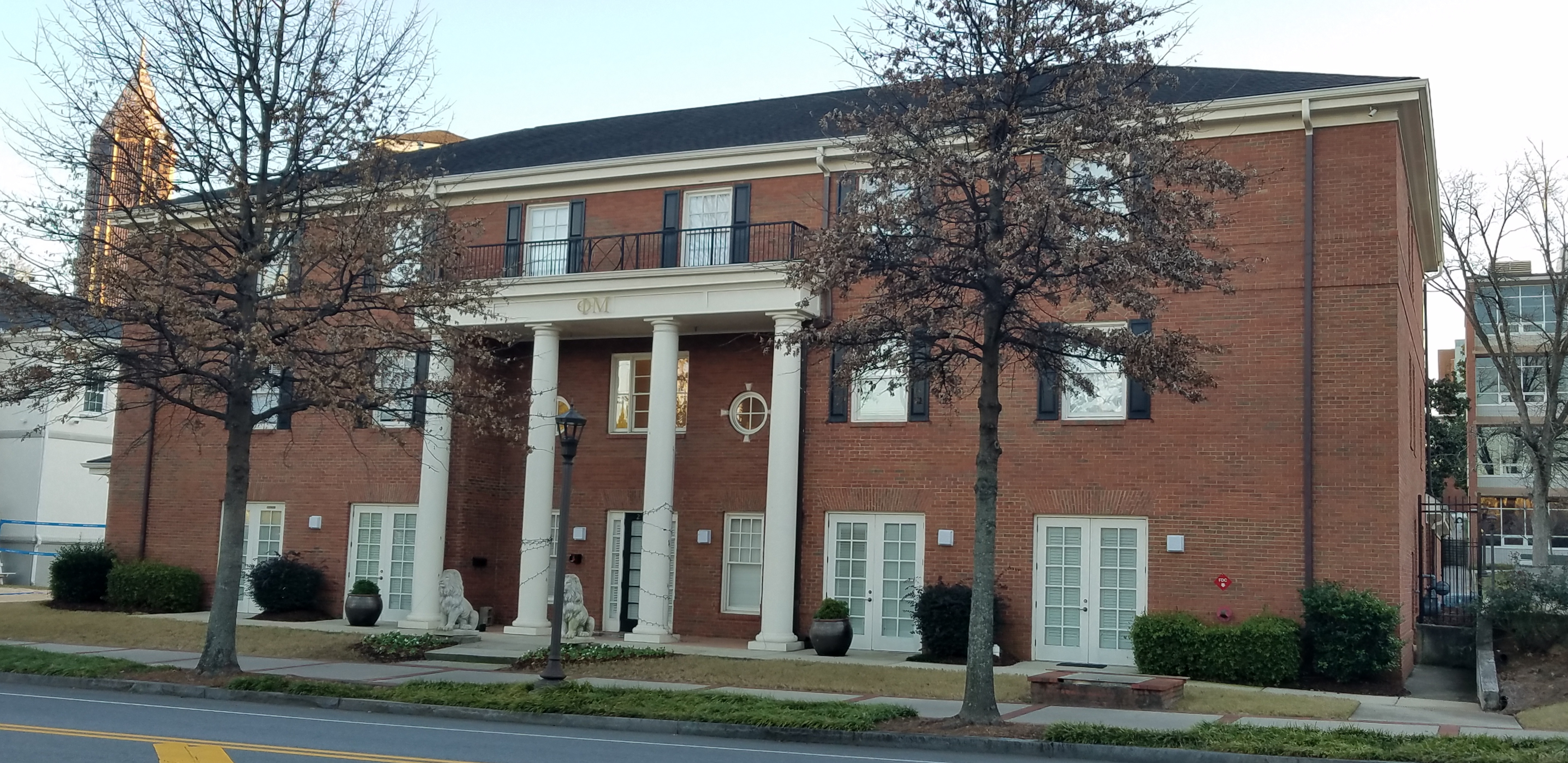 Phi Mu sorority at the Georgia Institute of Technology.